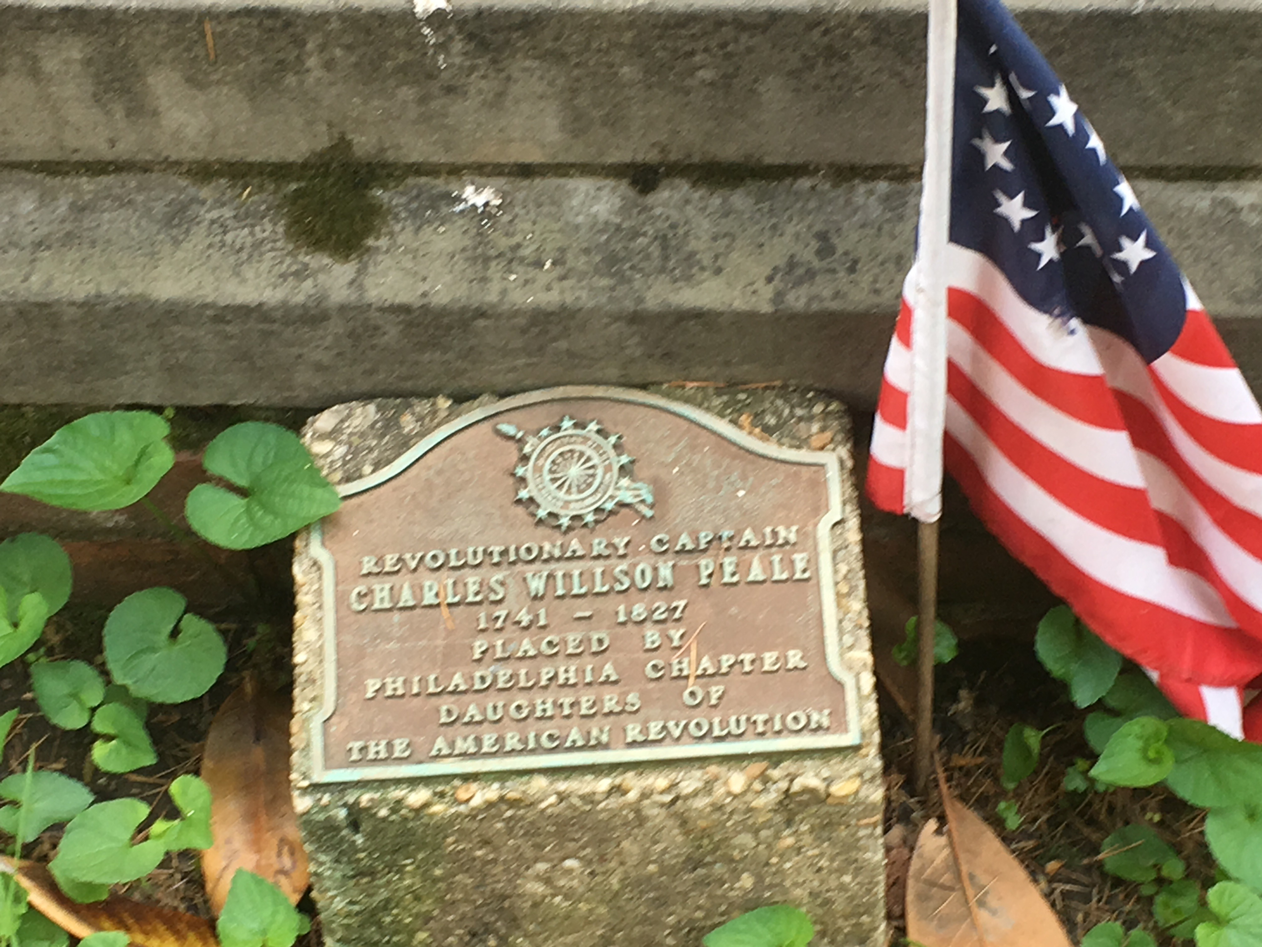 Plaque placed by the Daughters of the American Revolution at Charles Willson Peale's gravestone honoring his service in the Revolutionary War.